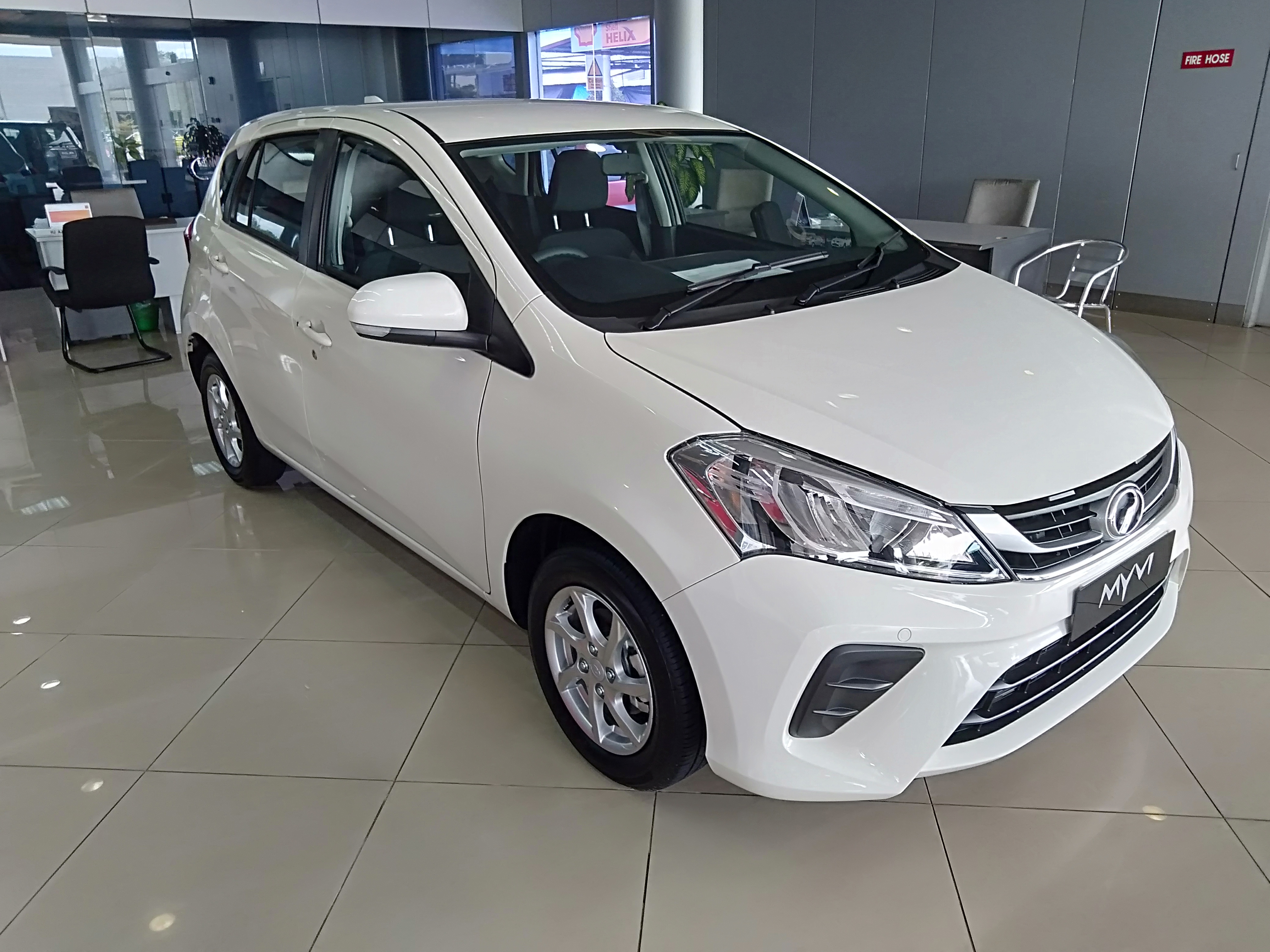 2021 Perodua Myvi 1.3G in white colour front view. Photographed at GHK Motors Mitsubishi and Perodua showroom, Beribi, Brunei.